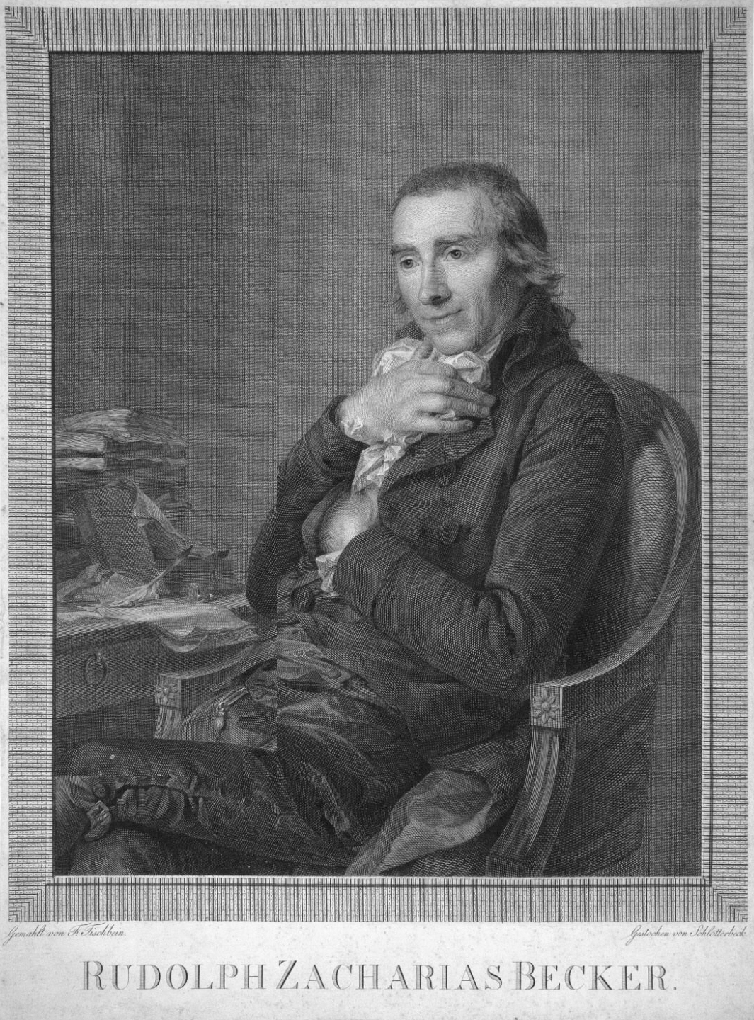 Rudolph Zacharias Becker (1752 - 1852), German Writer and Publisher in Gotha etching and engraving 32.6 x 24.3 cm